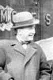 Gabriel Marie Grovlez (1879–1944), French composer and conductor